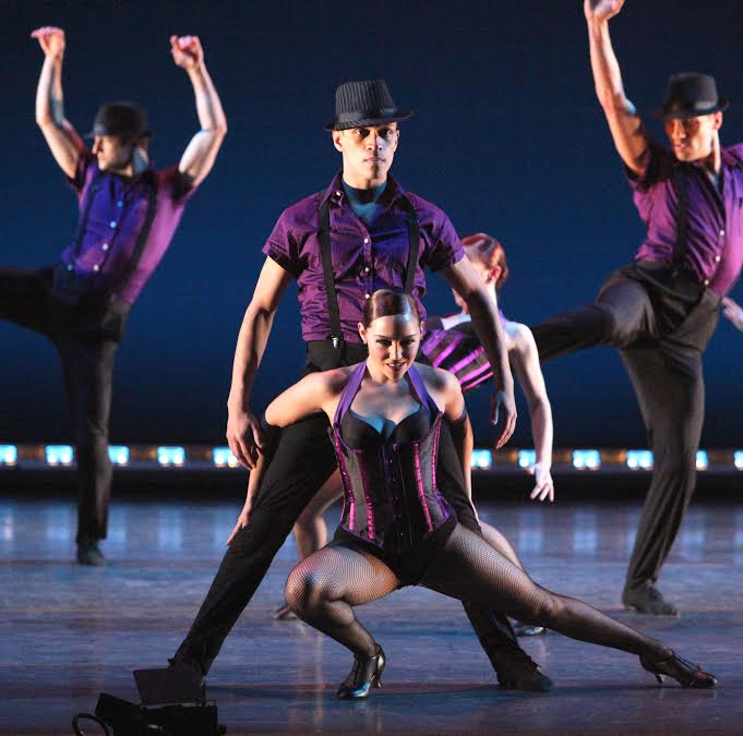 Members of American jazz dance company Giordano Dance Chicago performing Feelin' Good Sweet, choreographed by Ray Leeper. Required attribution: "Giordano Dance Chicago in Feelin' Good Sweet, choreographed by Ray Leeper. Photo by Gorman Cook Photography."